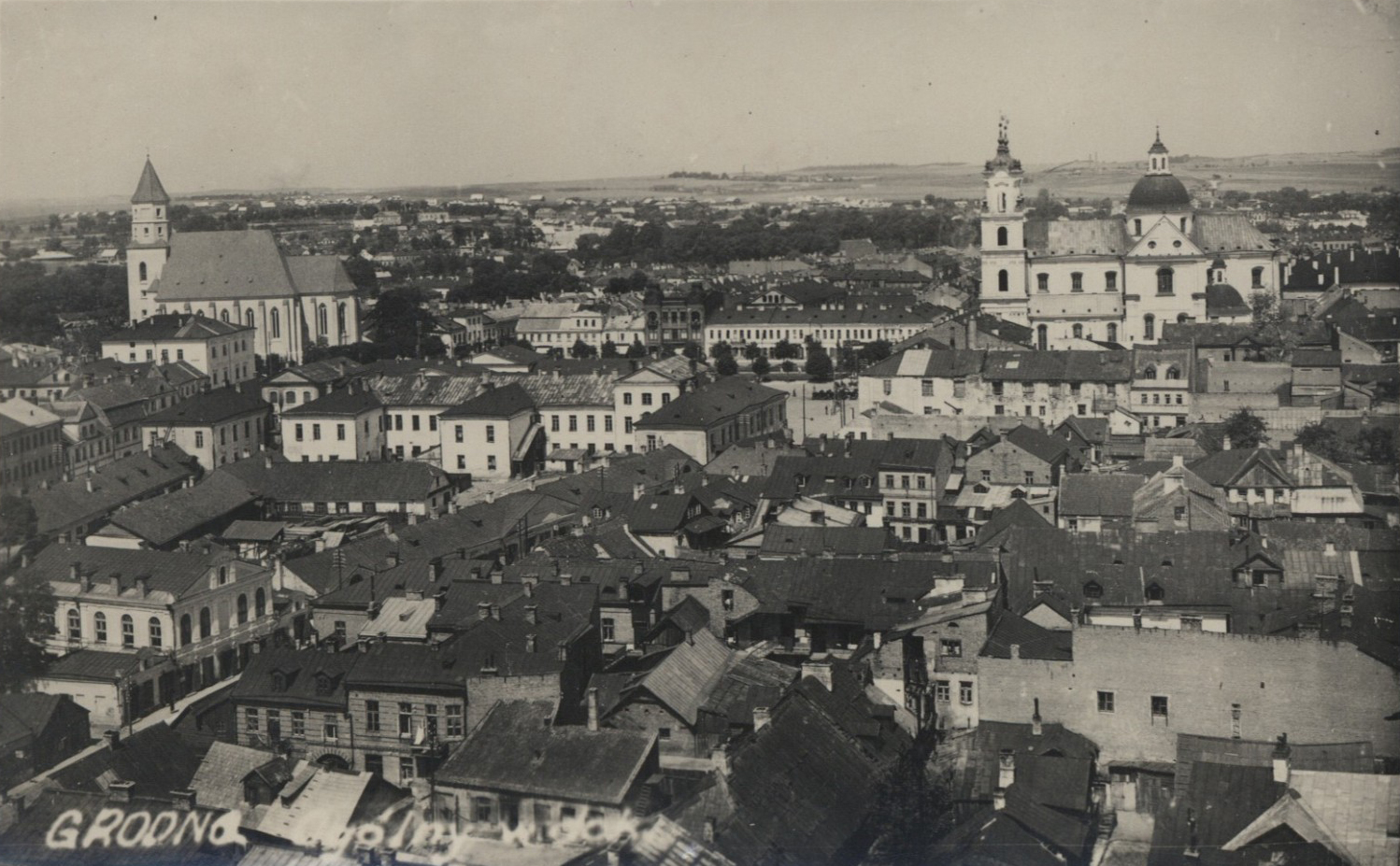 Panorama of Horadnia